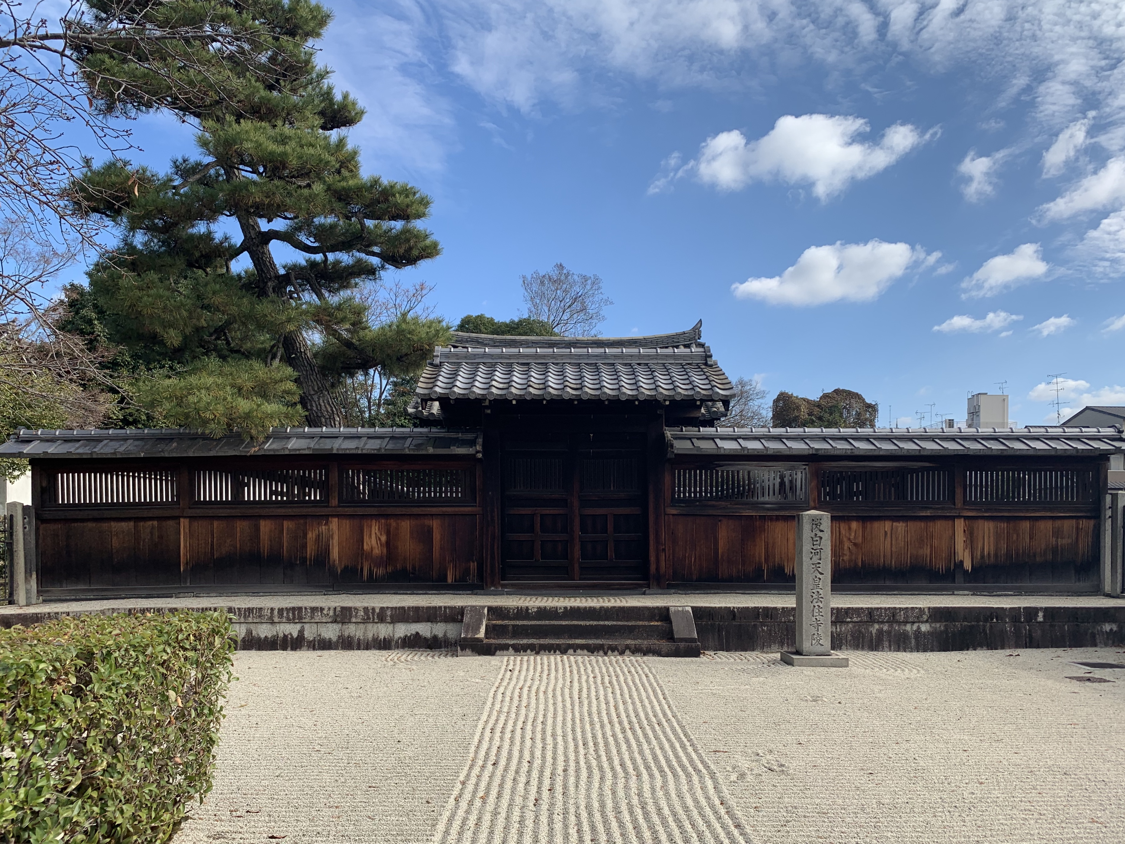 Tomb of Emperor Goshirakawa. Kyoto, Japan.2020